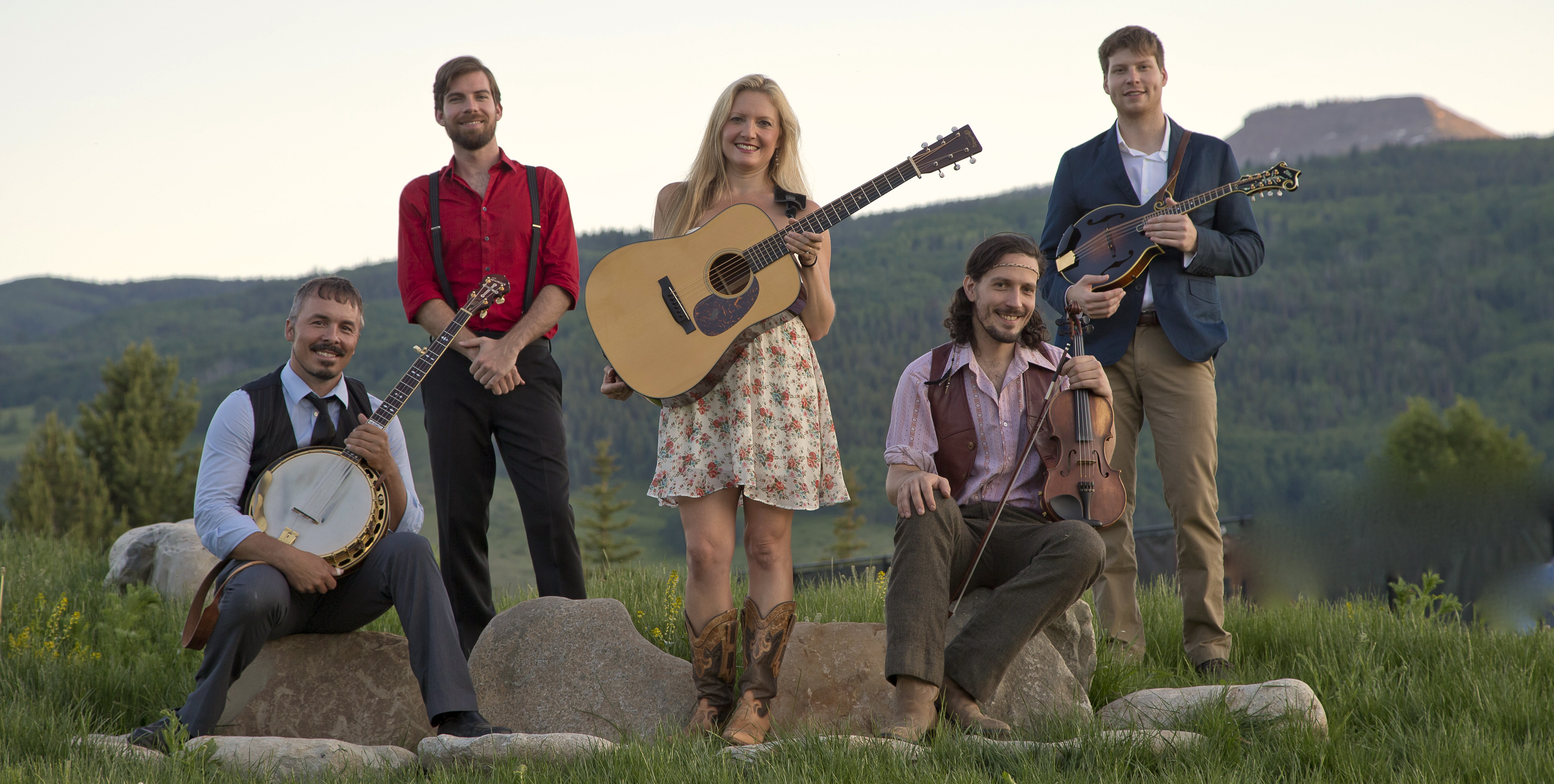 Hit & Run performs at Center for the Arts in Gunnison, Colorado, 2015